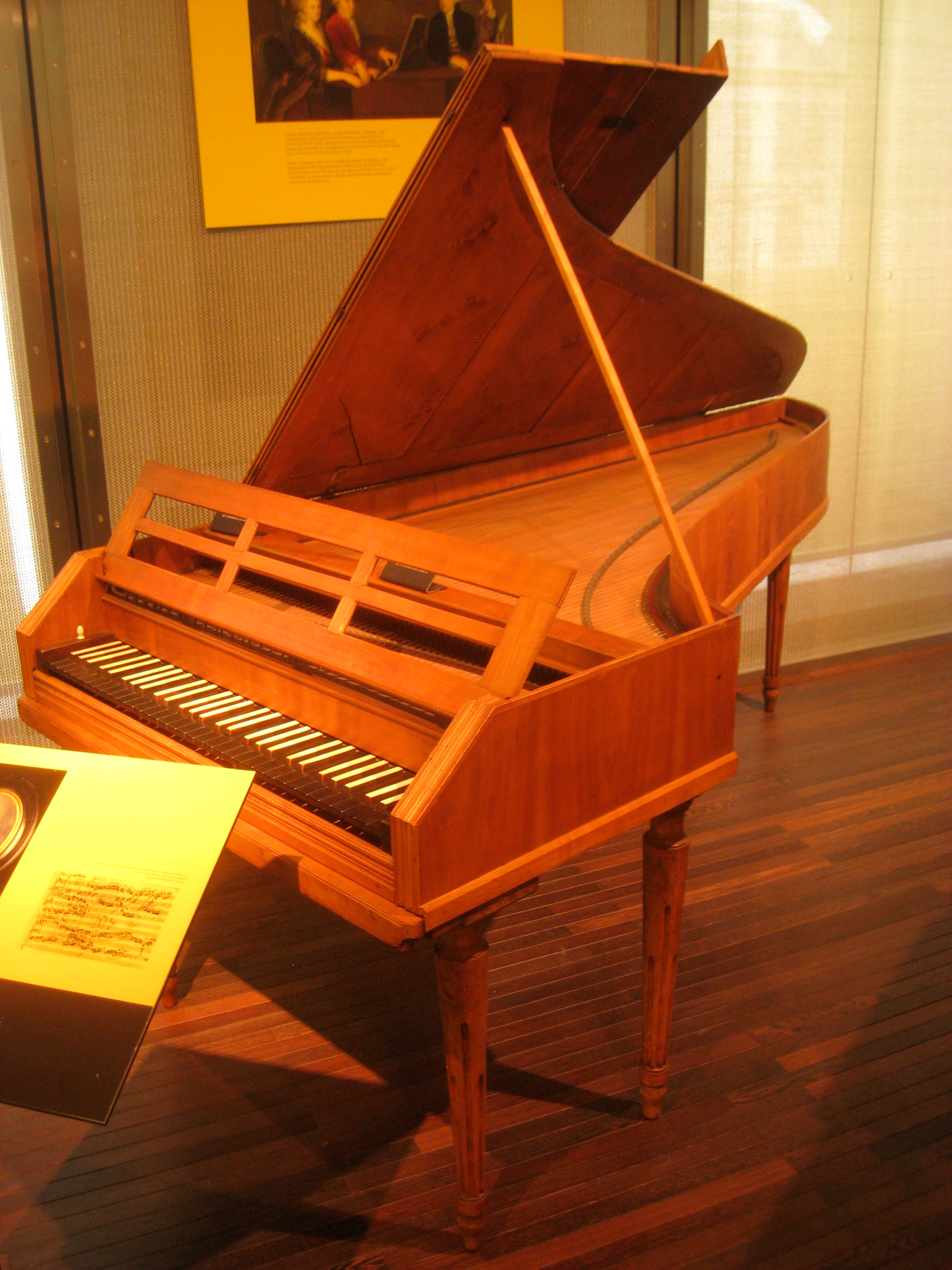 Piano collection in the Musical Instrument Museum, Brussels, Belgium. Johann Andreas Stein, Augsburg, 1786.